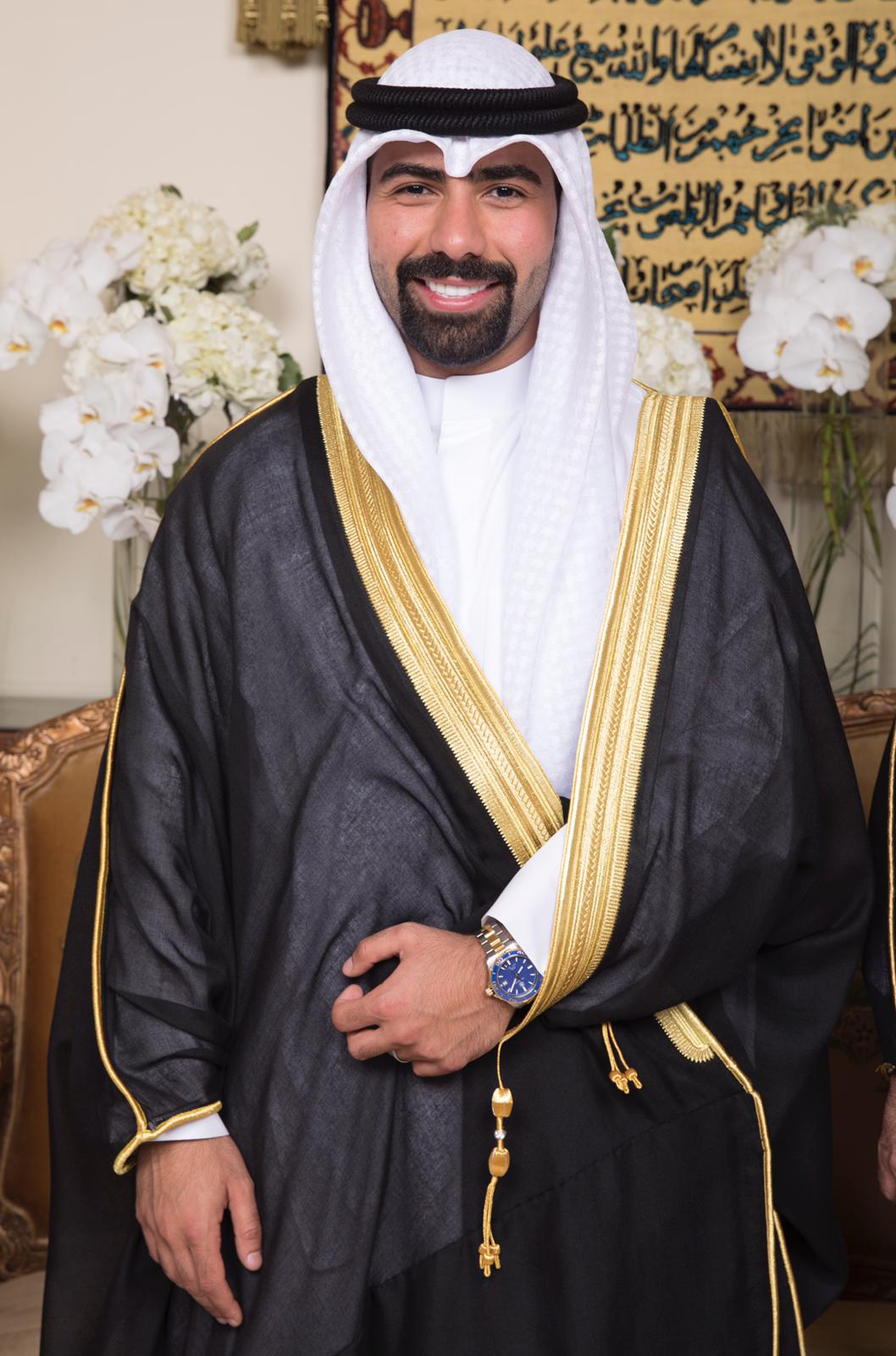 عبد الله مال الله